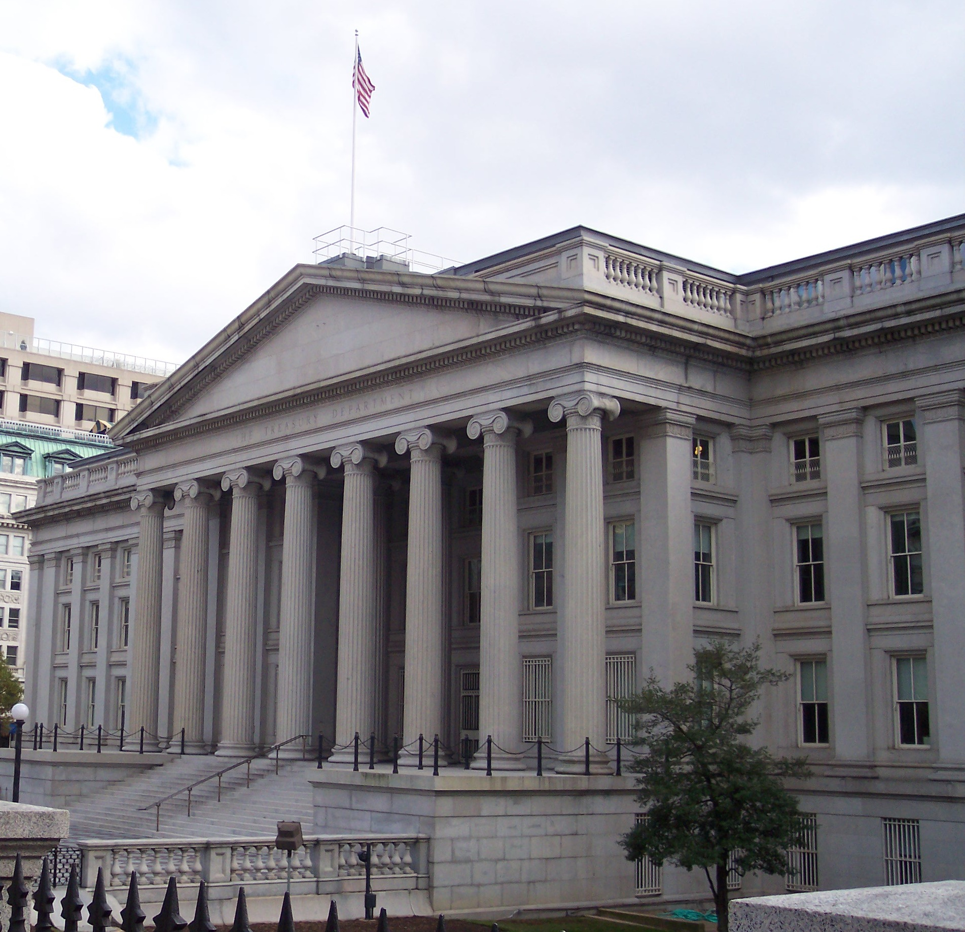 The U.S. Treasury building, Washington D.C.